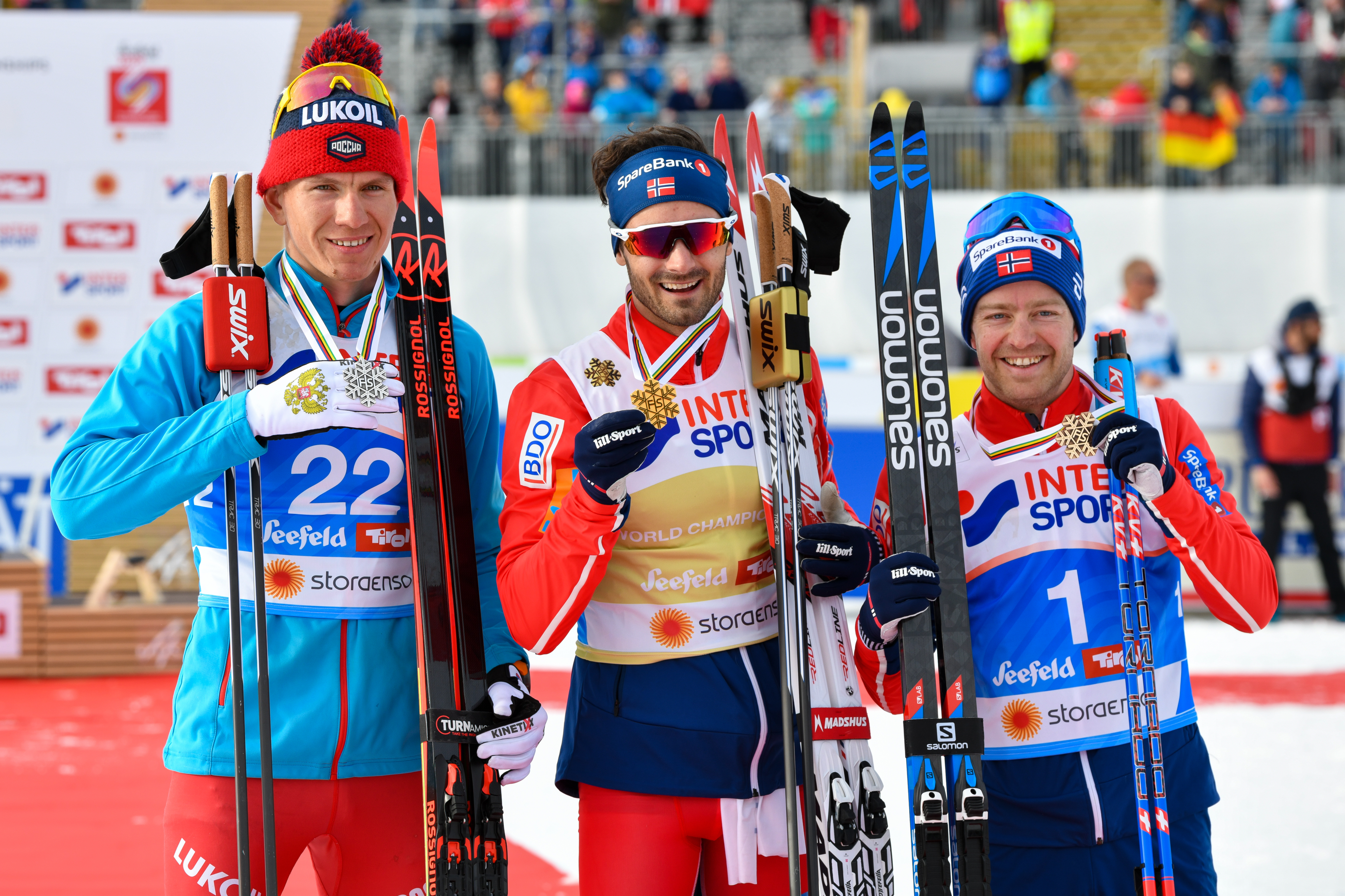 FIS Nordic World Ski Championships Seefeld 2019 - Men Cross Country 50km Mass Start Free. Picture shows Alexander Bolshunov (RUS), Hans Christer Holund (NOR), Sjur Røthe (NOR).